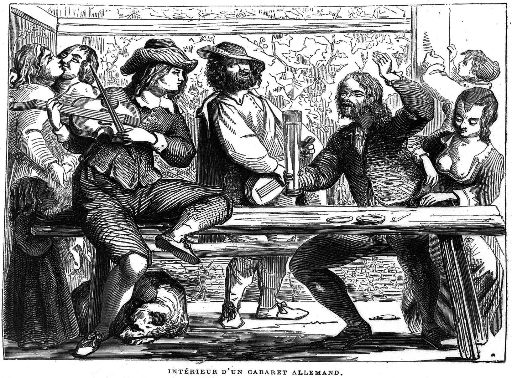 L'interieur d'un allemand. The apple-squire chalks up the tally. The drunken client is distracted by music while his chosen whore picks his pocket. General Collections Keywords: Prostitution